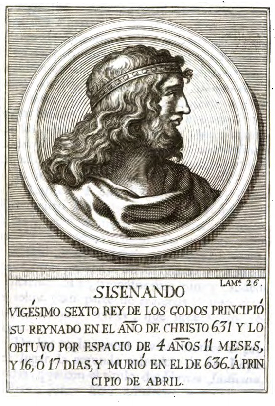 A poster of SISENADO or SISENANDO, Visigoth king, n° 26 in the chronological order of the book digitalized by Google since the bookshop in the University of Oxford.